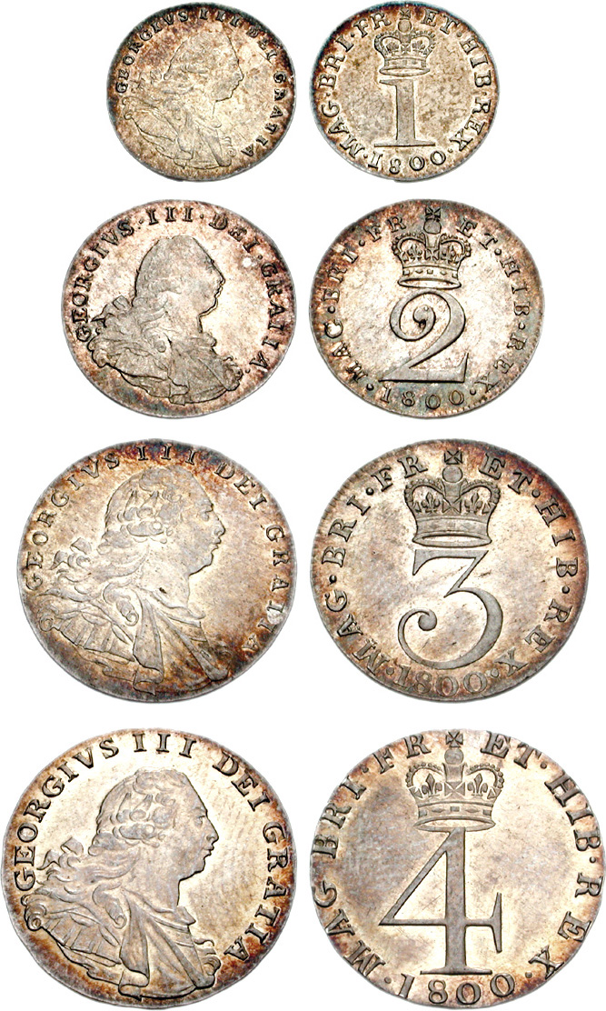 England. HANOVER. George III of the United Kingdom. 1760-1820. AR Maundy Set: Includes 1d, 2d, 3d, and 4d. Dated 1800. All coins: Older laureate and draped bust right Crowned mark of value. SCBC 3764. Superb EF, lightly toned.